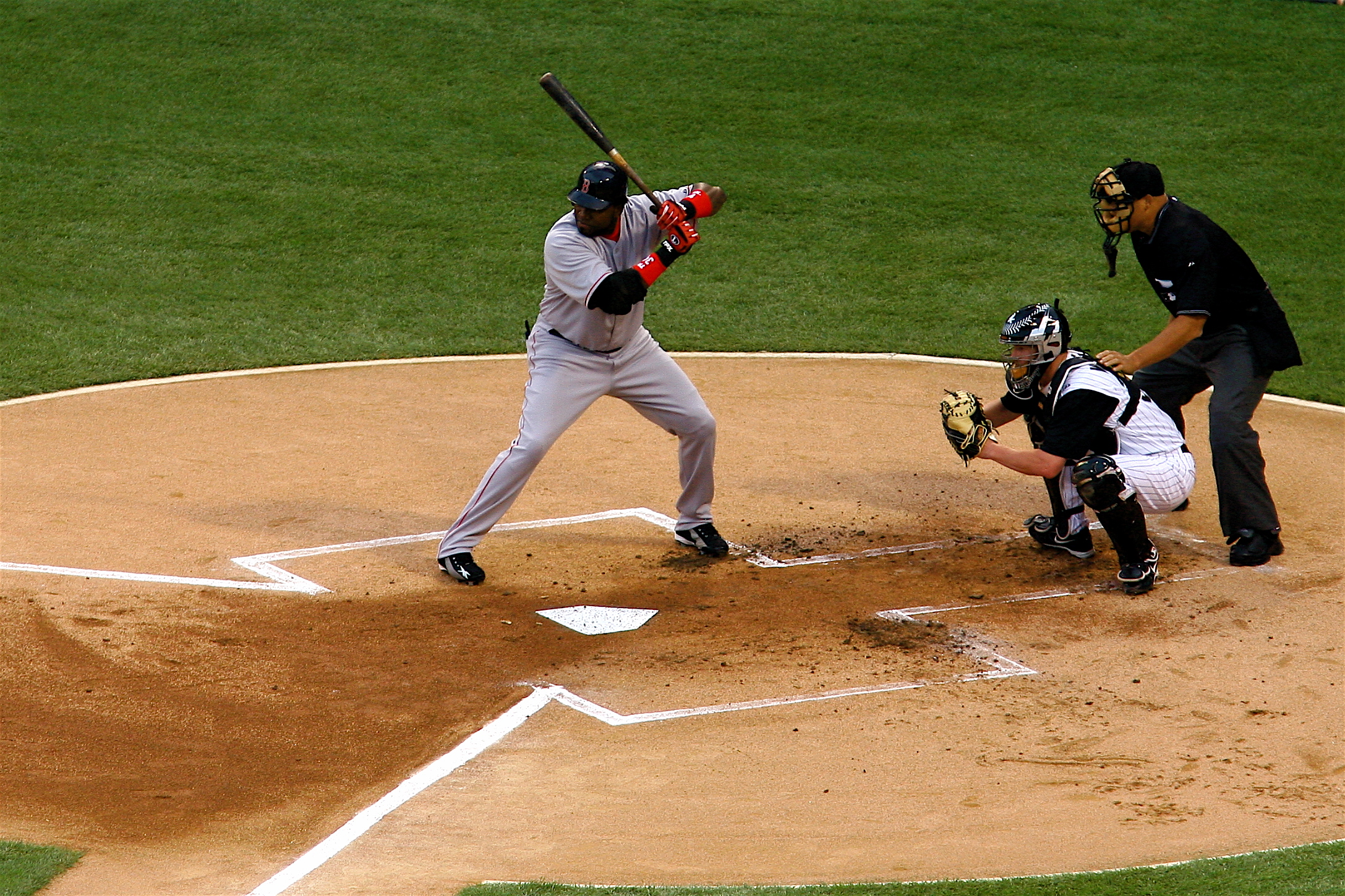 big papi 1dmk2n, 300mm f/4L, w/2.0x TC white sox vs. red sox 2006